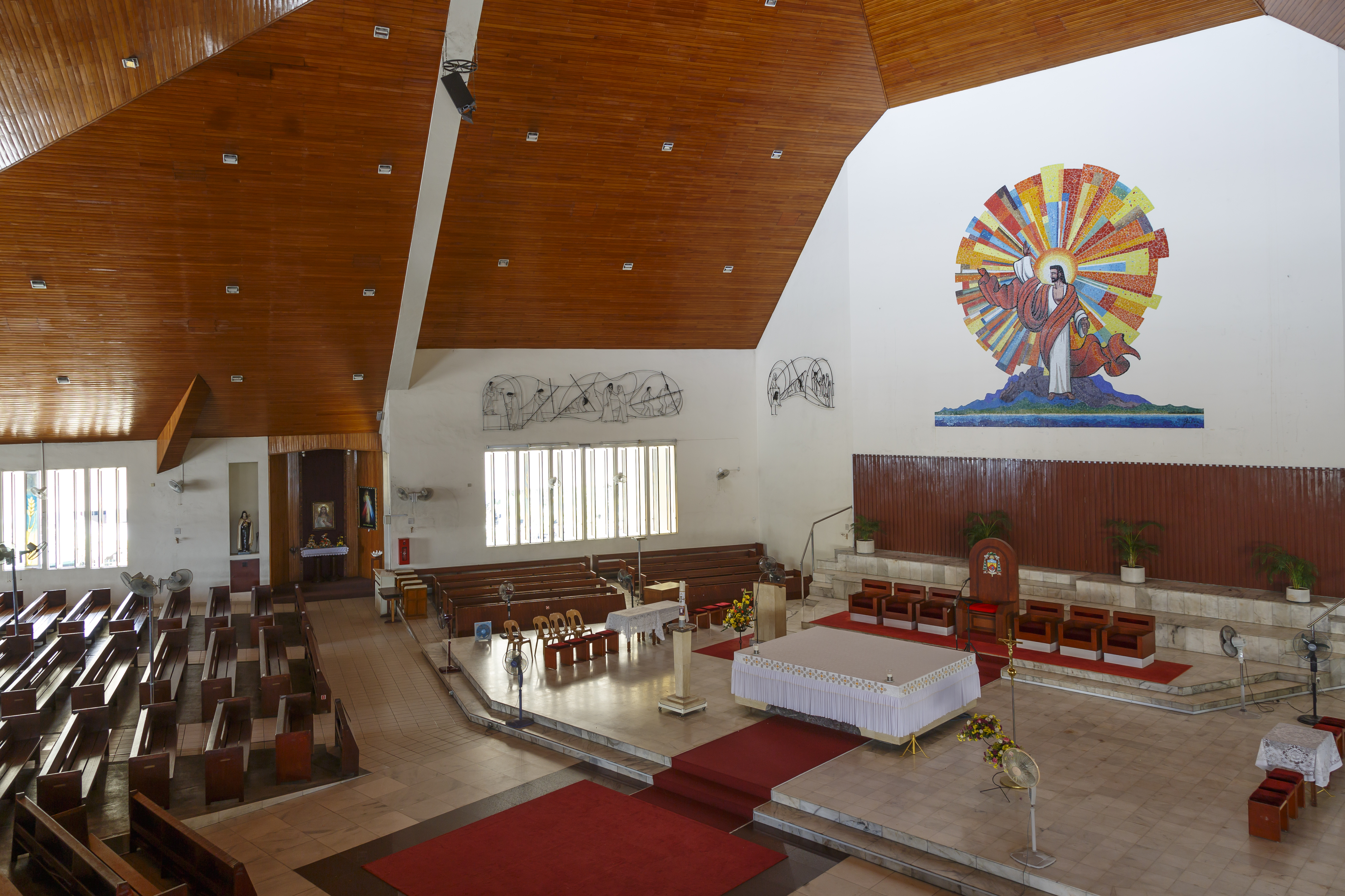 Kota Kinabalu, SAbah: Interior view of Sacred Heart Catholic Cathedral